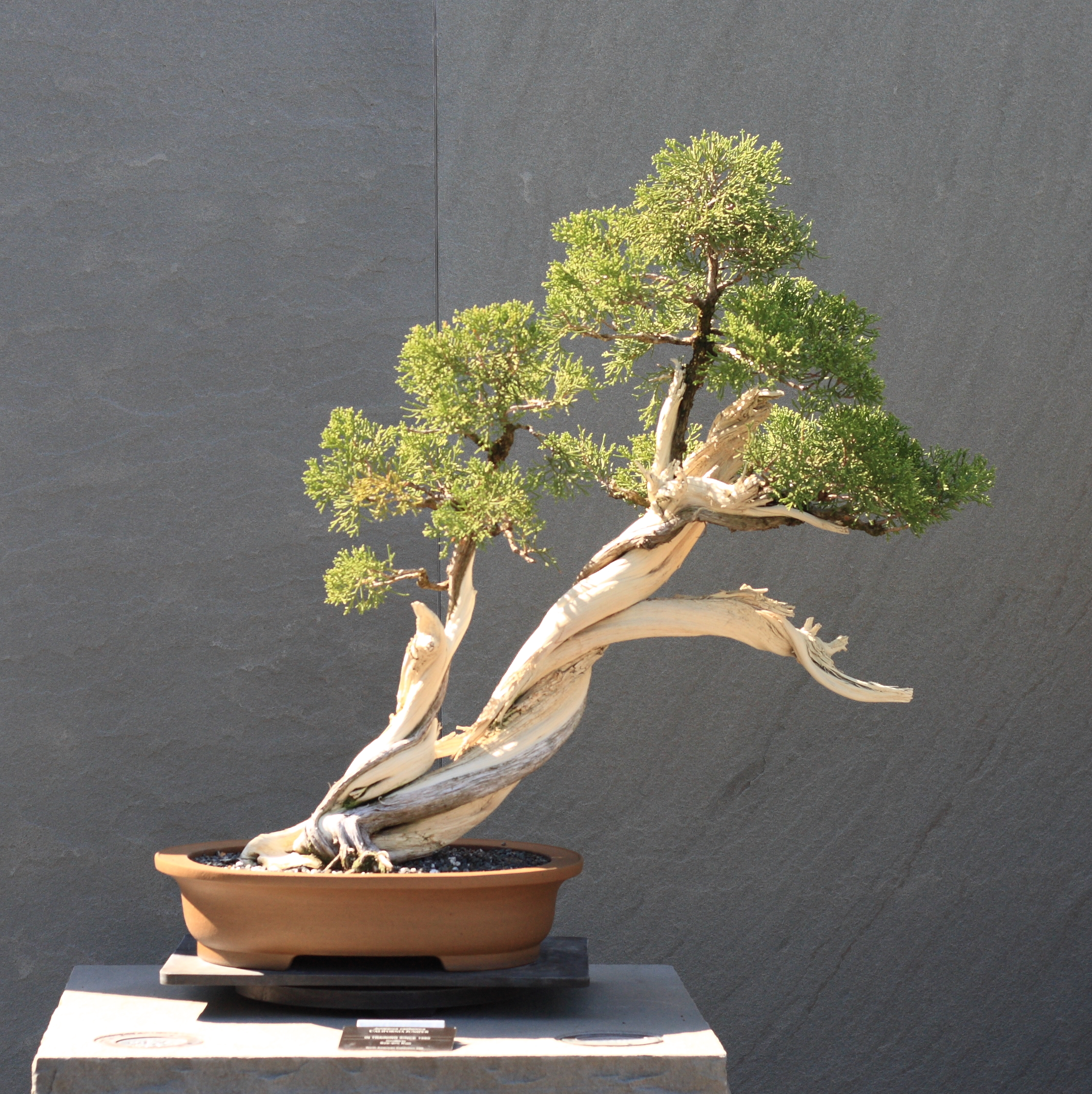 A California Juniper (Juniperus californica) bonsai, North American Collection 220, on display at the National Bonsai & Penjing Museum at the United States National Arboretum. According to the tree's display placard, it has been in training since 1980. It was donated by Sze-ern Kuo.